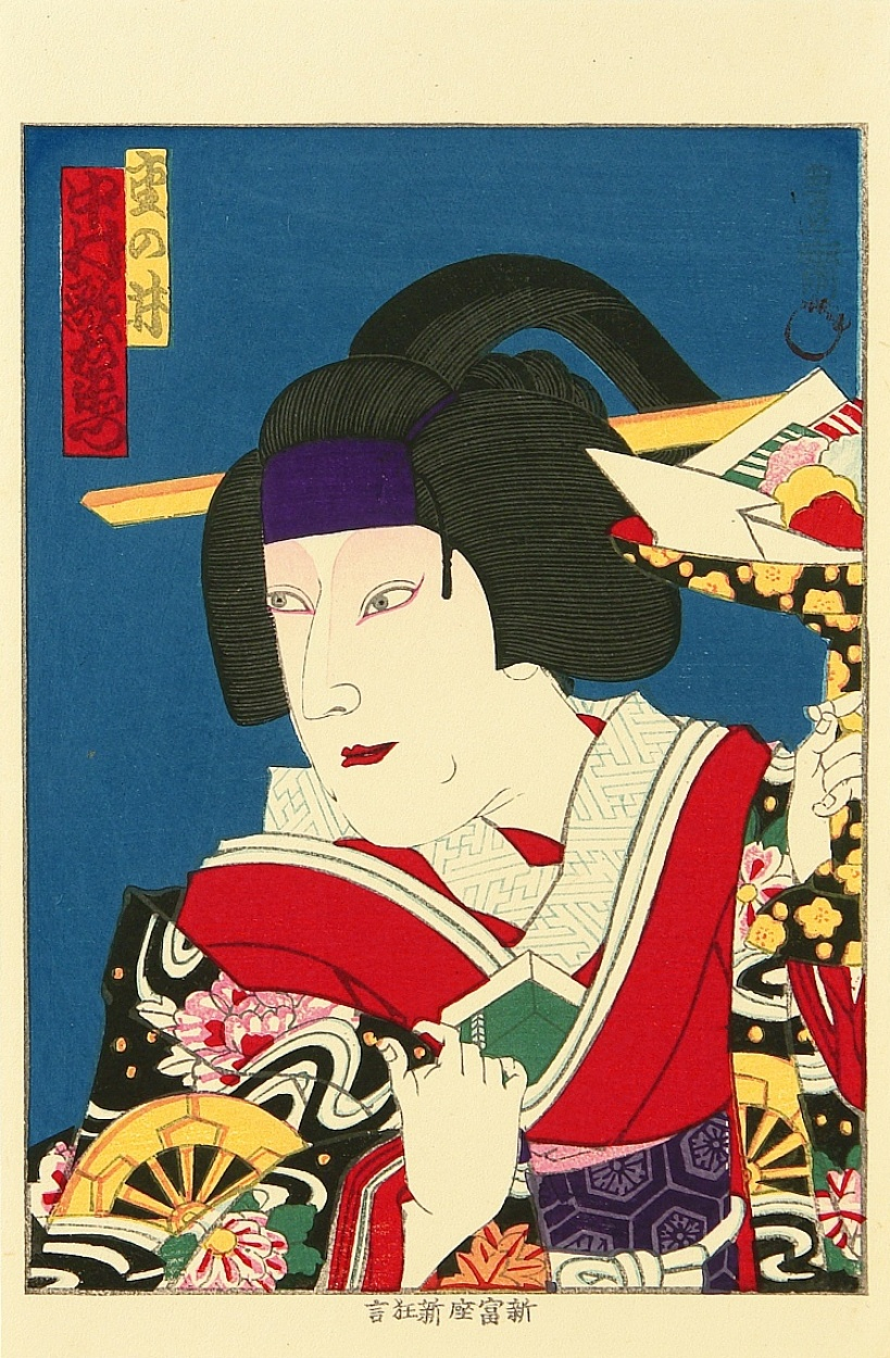 woodblock print by Utagawa Kunisada III, the actor Nakamura Utaemon V, after 1900